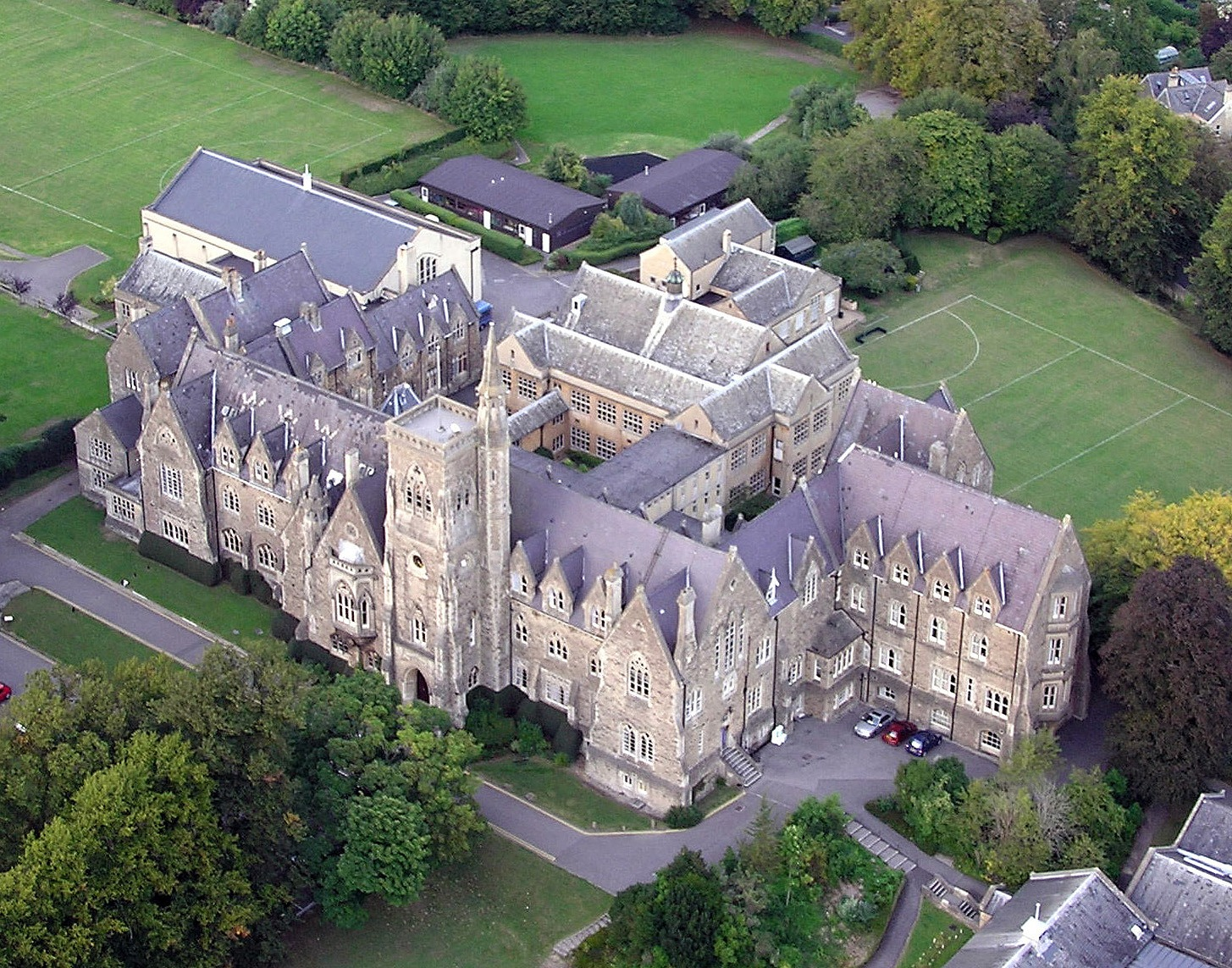 The Royal High School, Bath, England, seen from a hot air balloon I was in (we flew fron Royal Victoria Park in Bath, to Grittleton).